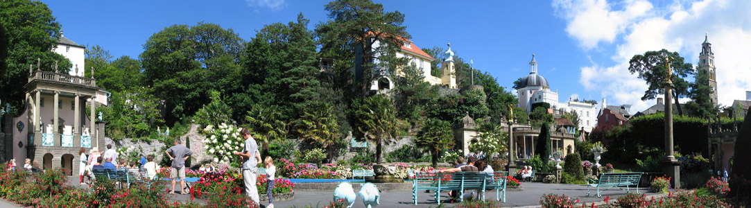 Panoramic view of the central piazza at Portmeirion